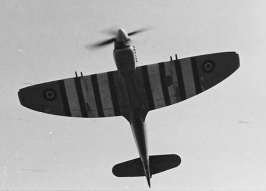 A Royal Air Force Hawker Tempest Mark V from below. The black and white stripes were usually painted for identification purposes by ground troops on the lower wings of the Tempest.